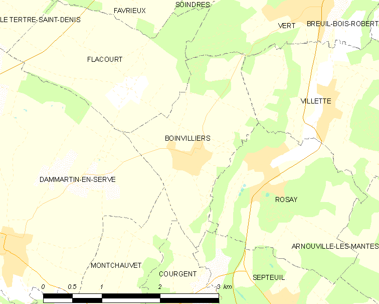 Map of French municipality Boinvilliers